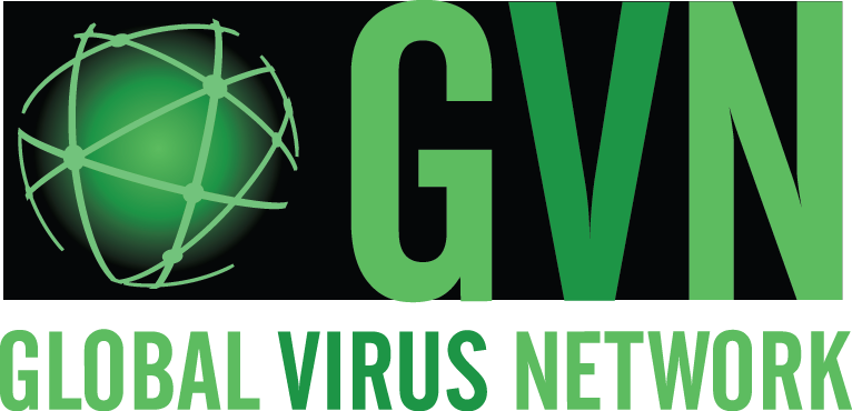 GVN logo